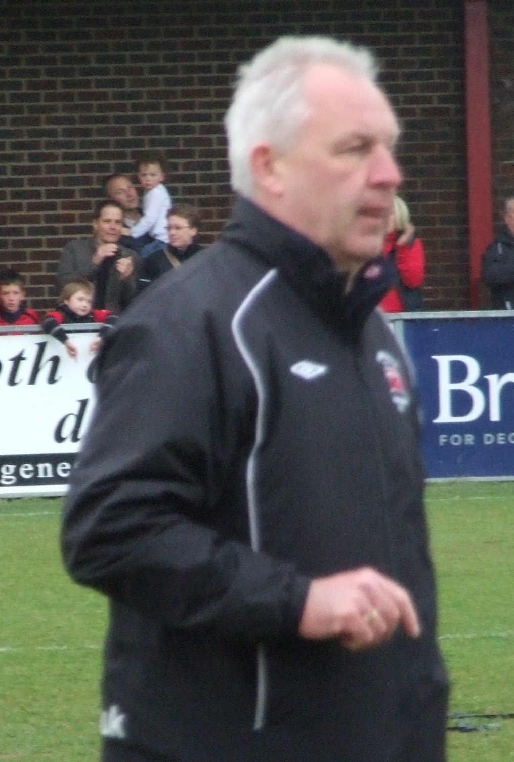 Garry Wilson, manager of Eastbourne Borough Football Club